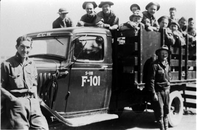 Men of Civilian Conservation Corps Camp S118-PA, from the Medix Run Camp in Clearfield County, Pennsylvania, USA. Truck is labeled ECW (Emergency Conservation Work, original name of the CCC) above the windshield, and "S-118 F-101" on the door.